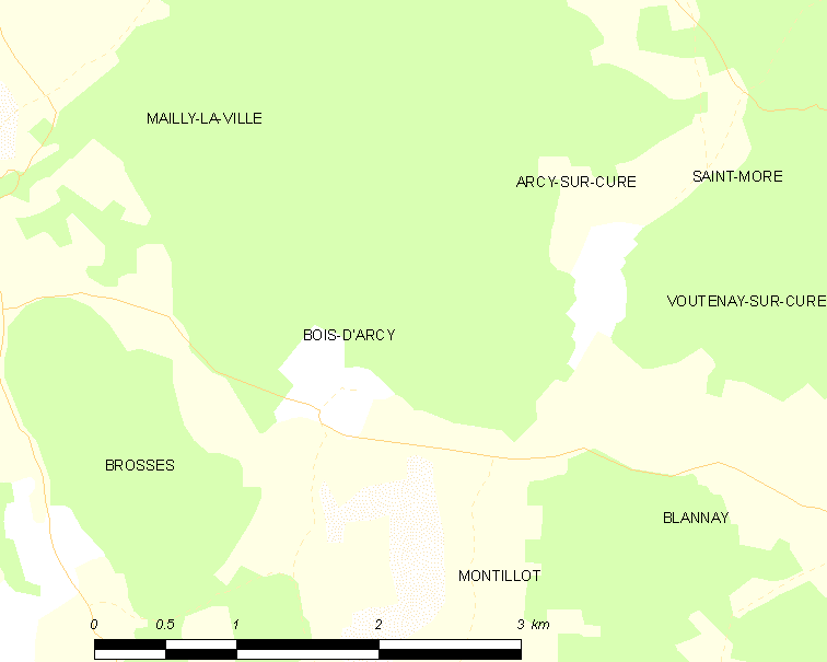 Map of French municipality Bois-d'Arcy